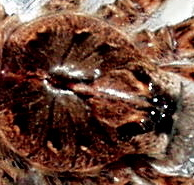 Cephalothorax of Dolomedes sp. spider that shows (barely visible) four small eyes at the bottom, and the remaining four eyes all approximately the same size.